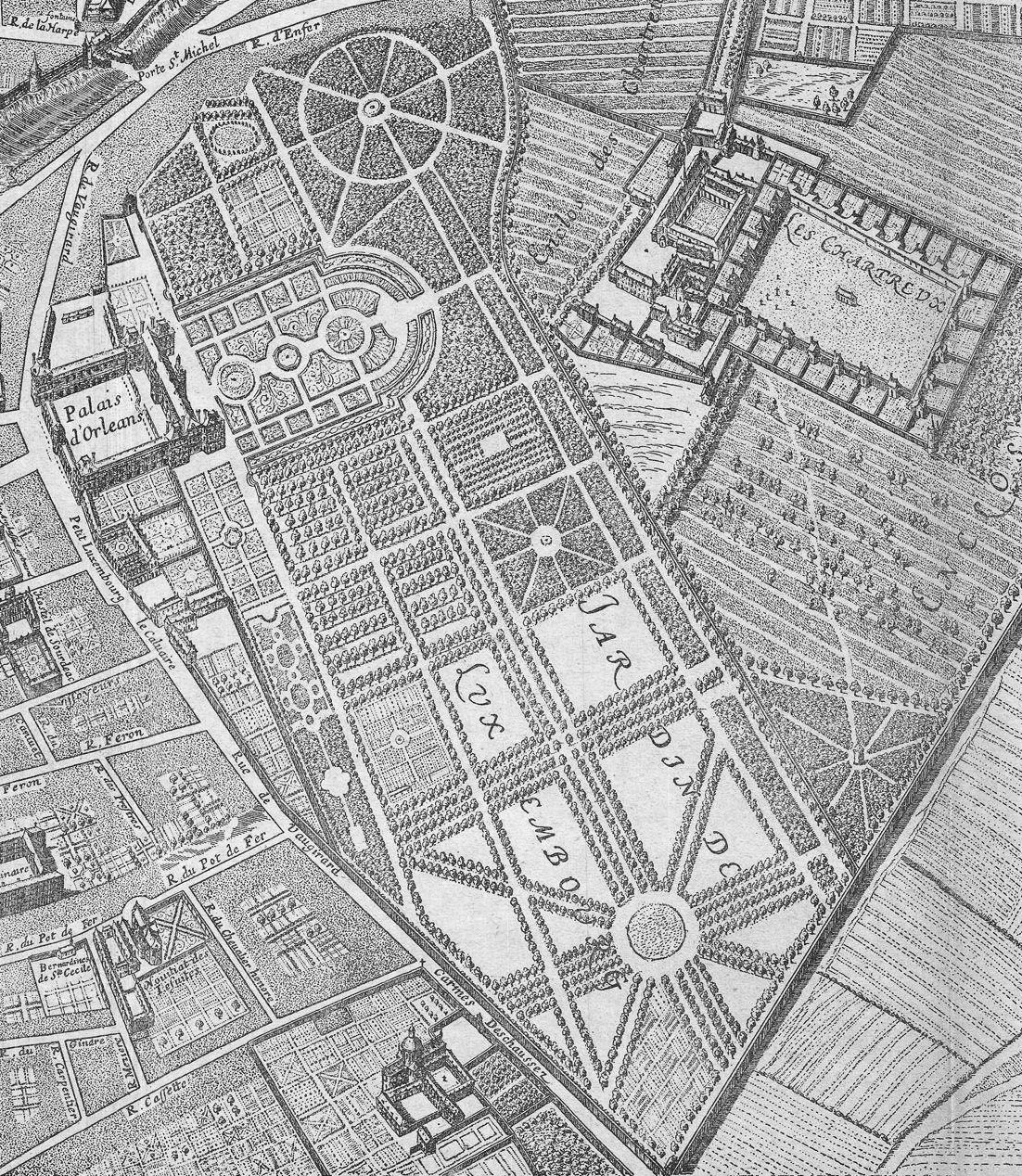 Detail from the 1652 Gomboust map of Paris showing the Palais d'Orléans (the name of the Luxembourg Palace at the time), the Petit Luxembourg, the Luxembourg Gardens, and the Couvent des Chartreux